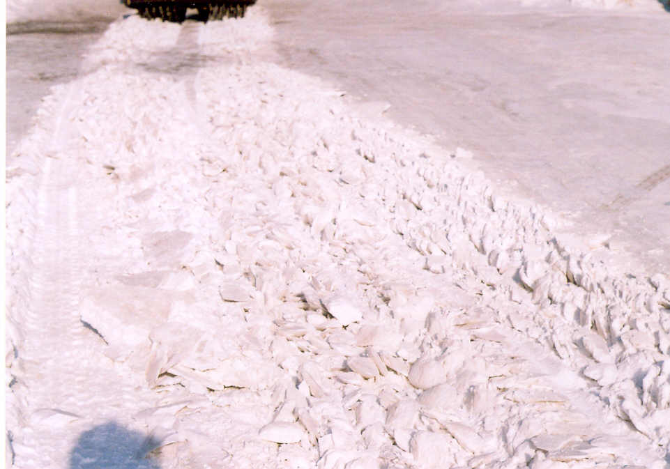 method of ice destruction-01